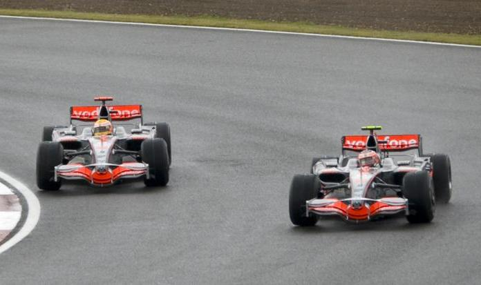 McLaren drivers Heikki Kovalainen and Lewis Hamilton battle in the early laps of the 2008 British Grand Prix.